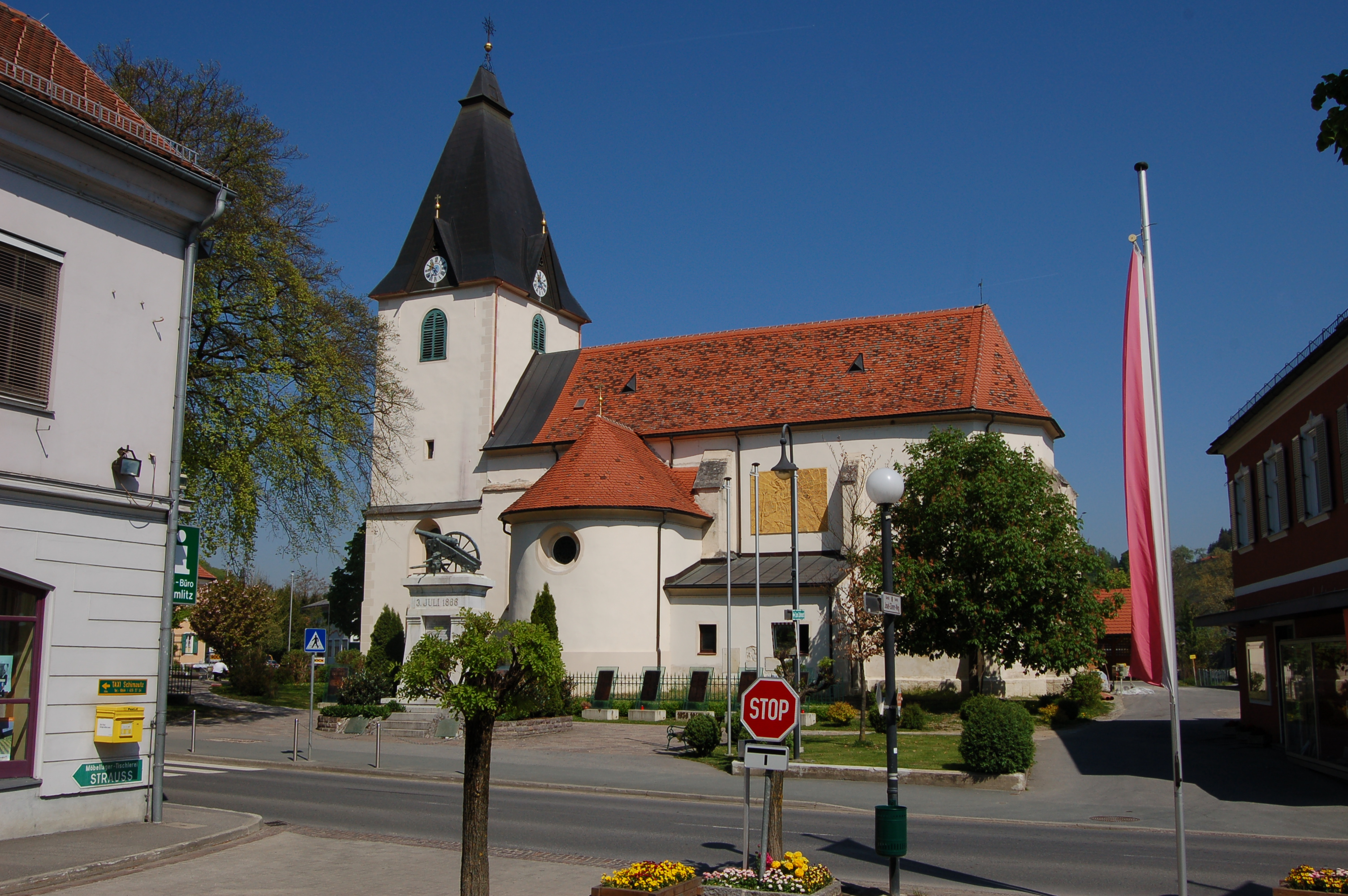 Saints Peter and Paul parish church and monument of soldiers killed on July 3, 1866 in Gamlitz, Styria